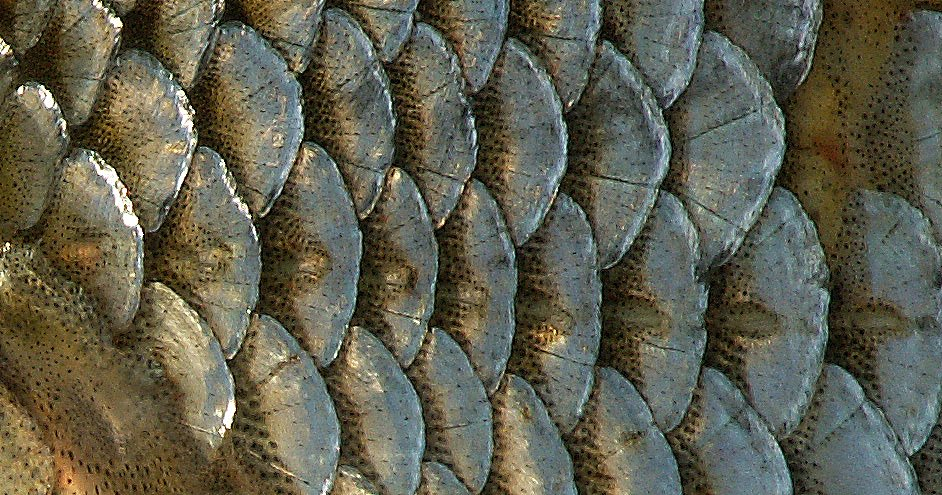 Rutilus rutilus, some scales of the lateral line